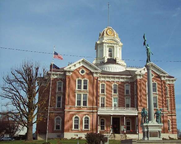 Posey County Courthouse in Mt. Vernon. Taken by Kurt Weber on 30 November 2007.